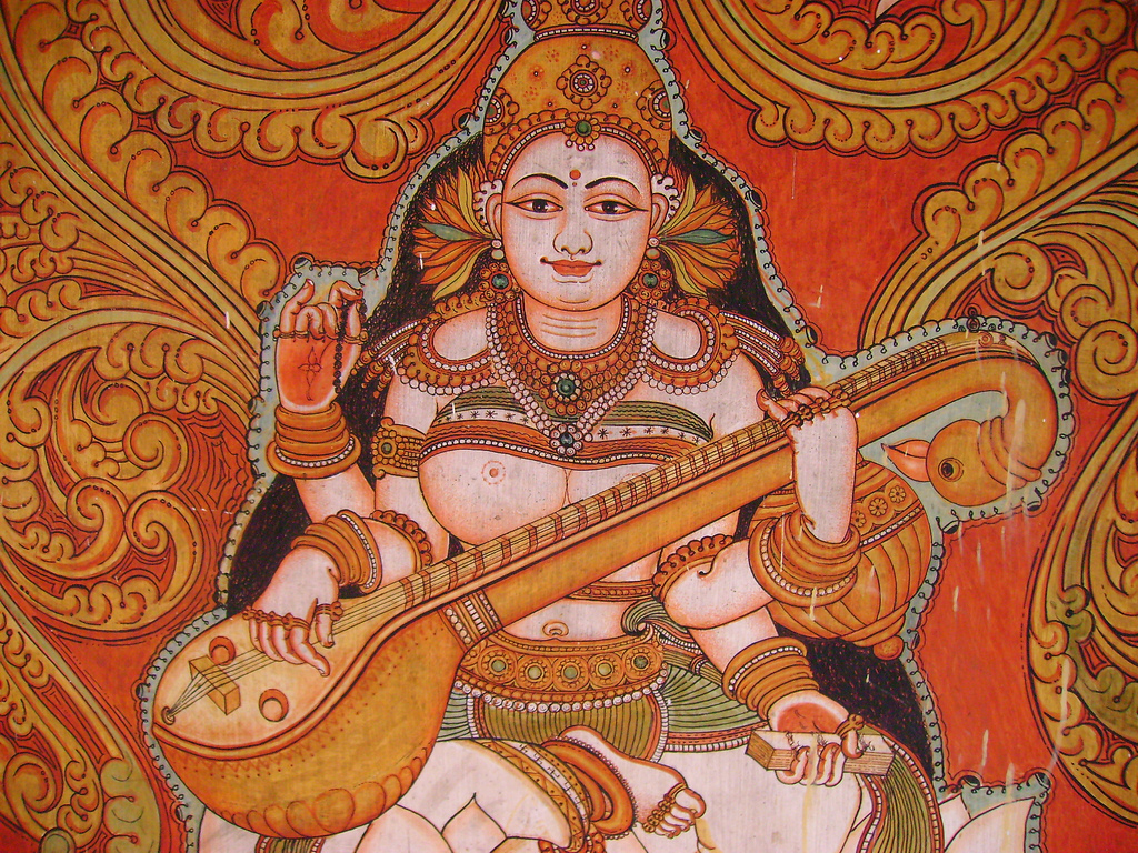 Mural painting from kollur mookambika temple